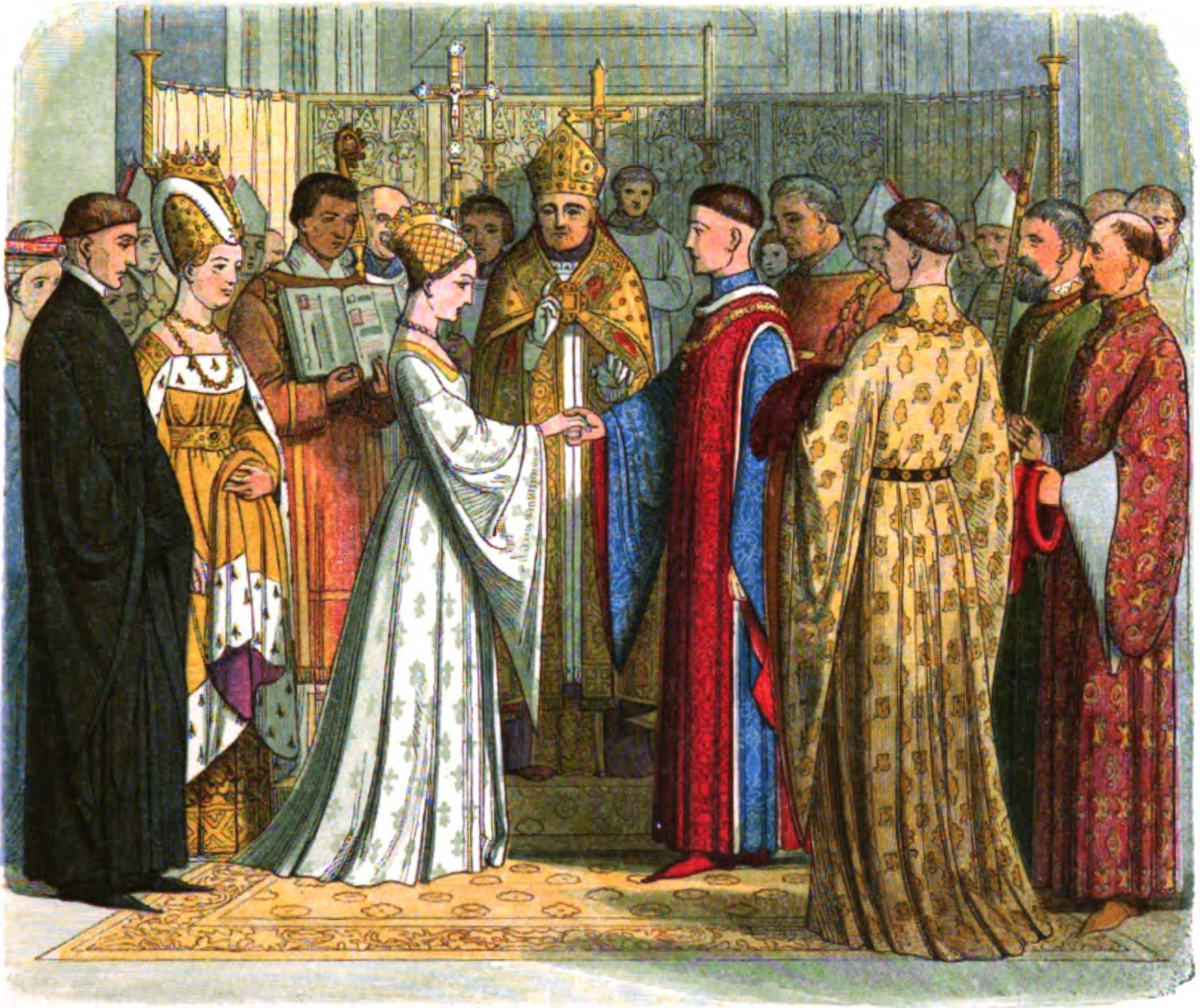 Henry V weds Catherine of Valois.